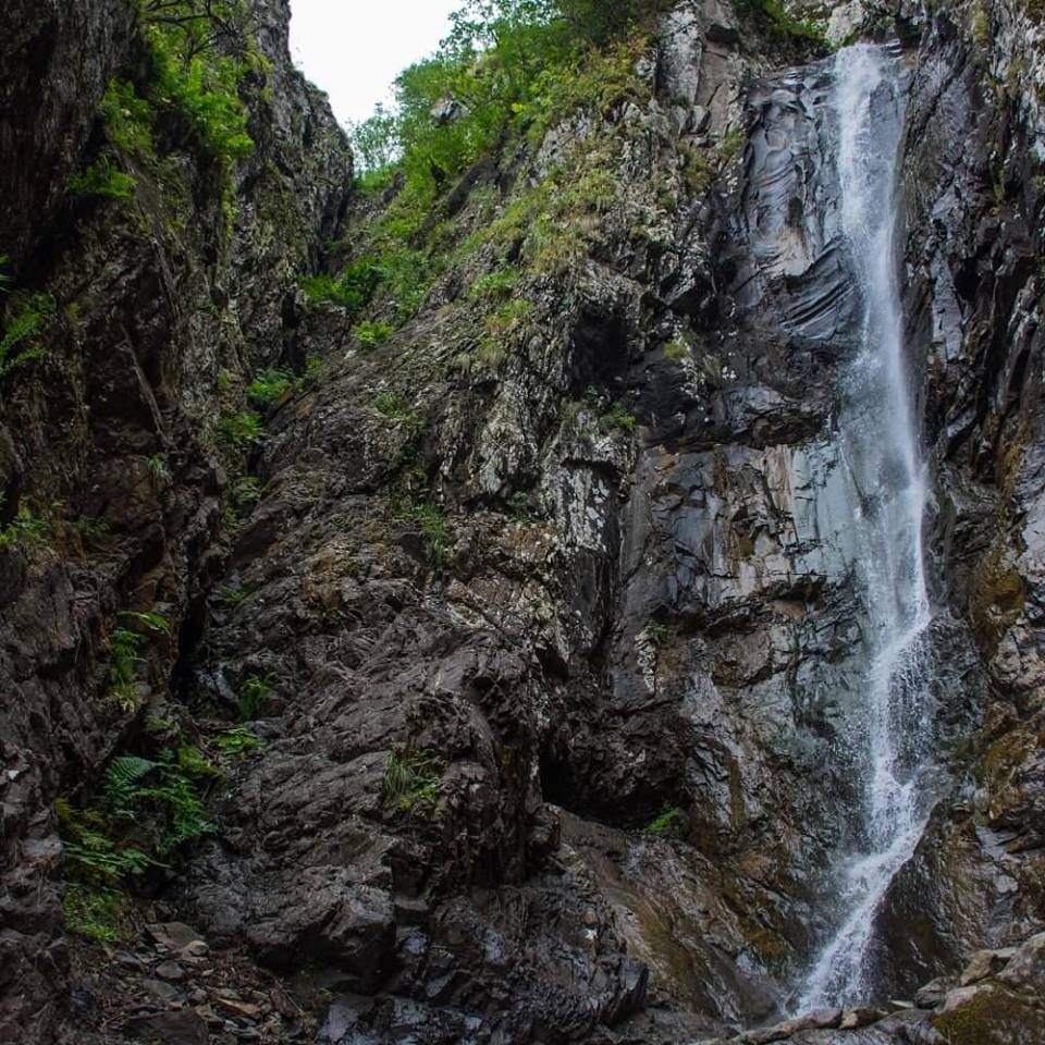 Waterfall